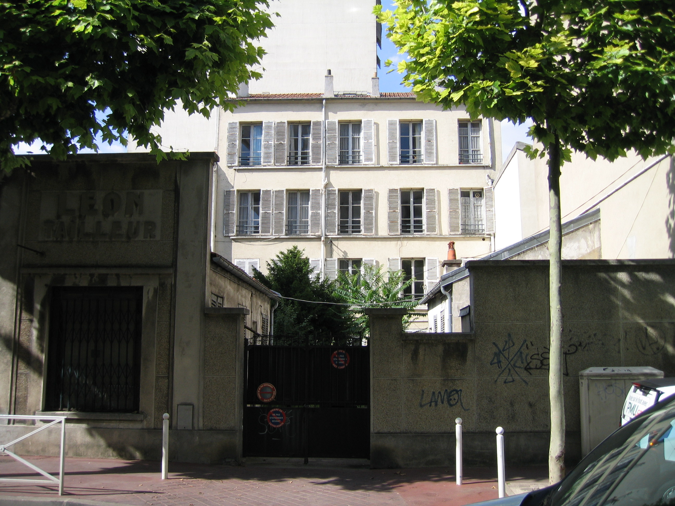 4 rue Louis Rolland in Montrouge where lived Raymond Federman.